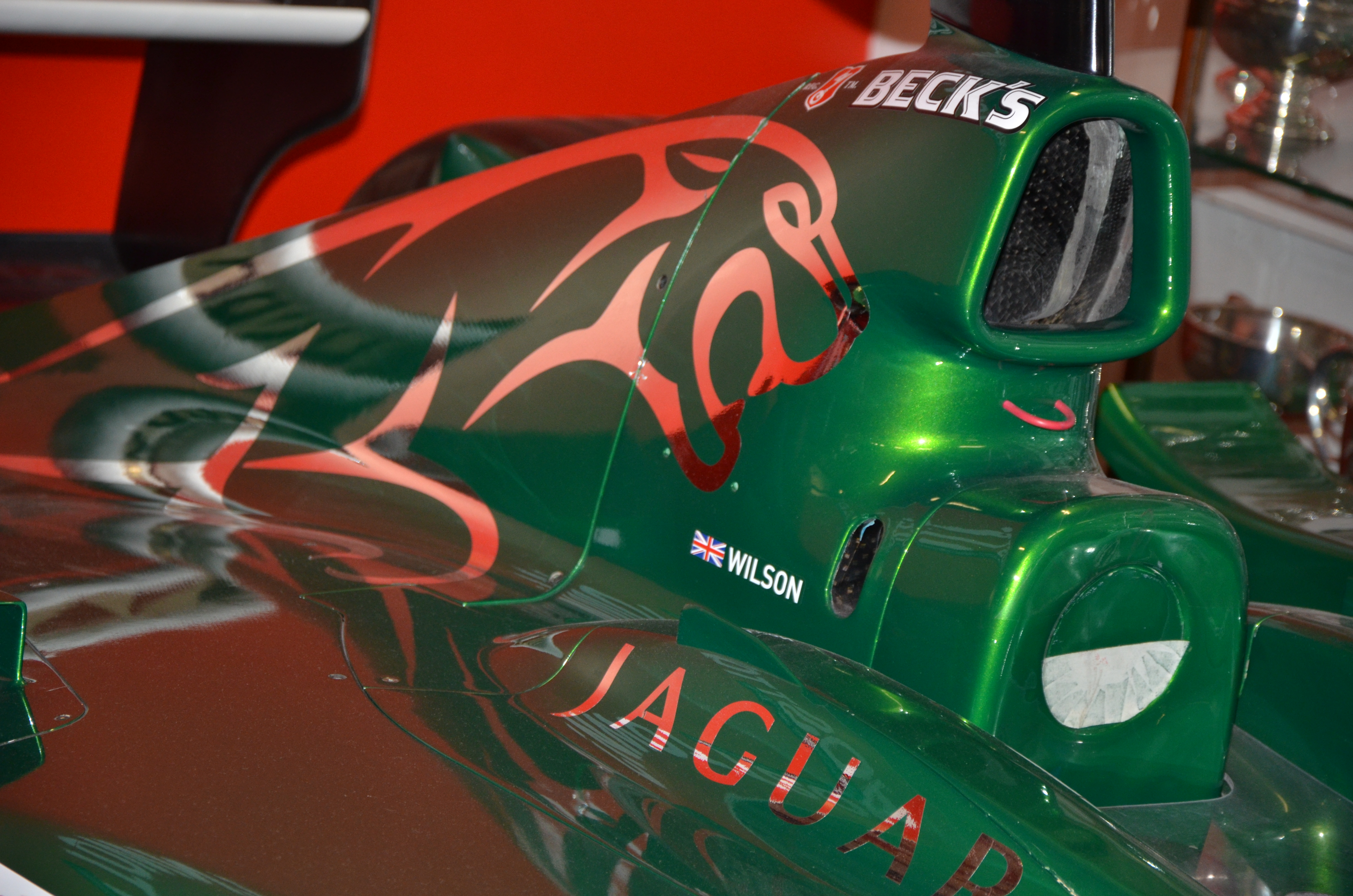 Jaguar logo on the engine cover of the Jaguar R4 F1 car